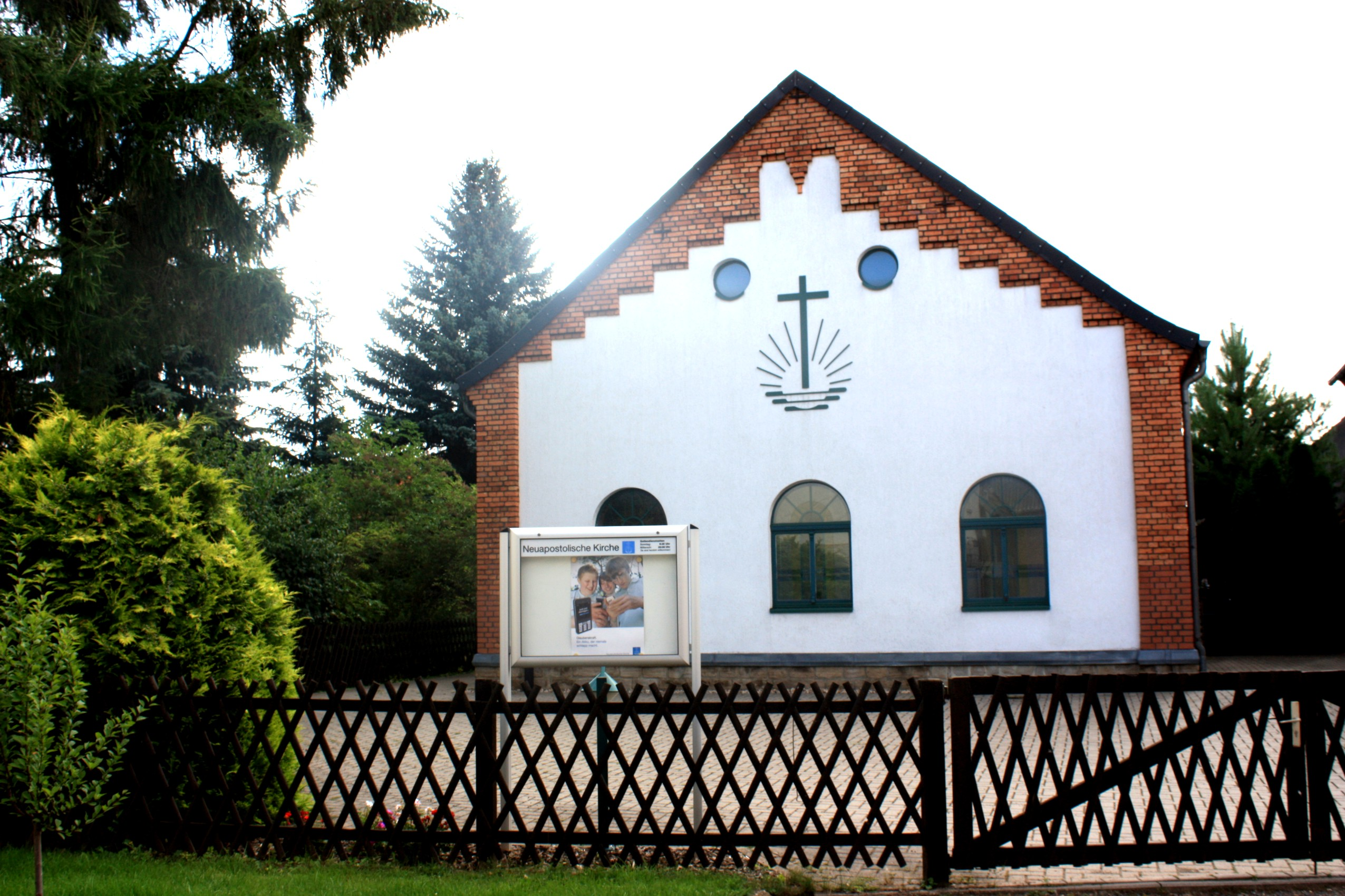 Berga (Kyffhäuser), the New Apostolic Church This is a photograph of an architectural monument. 84243